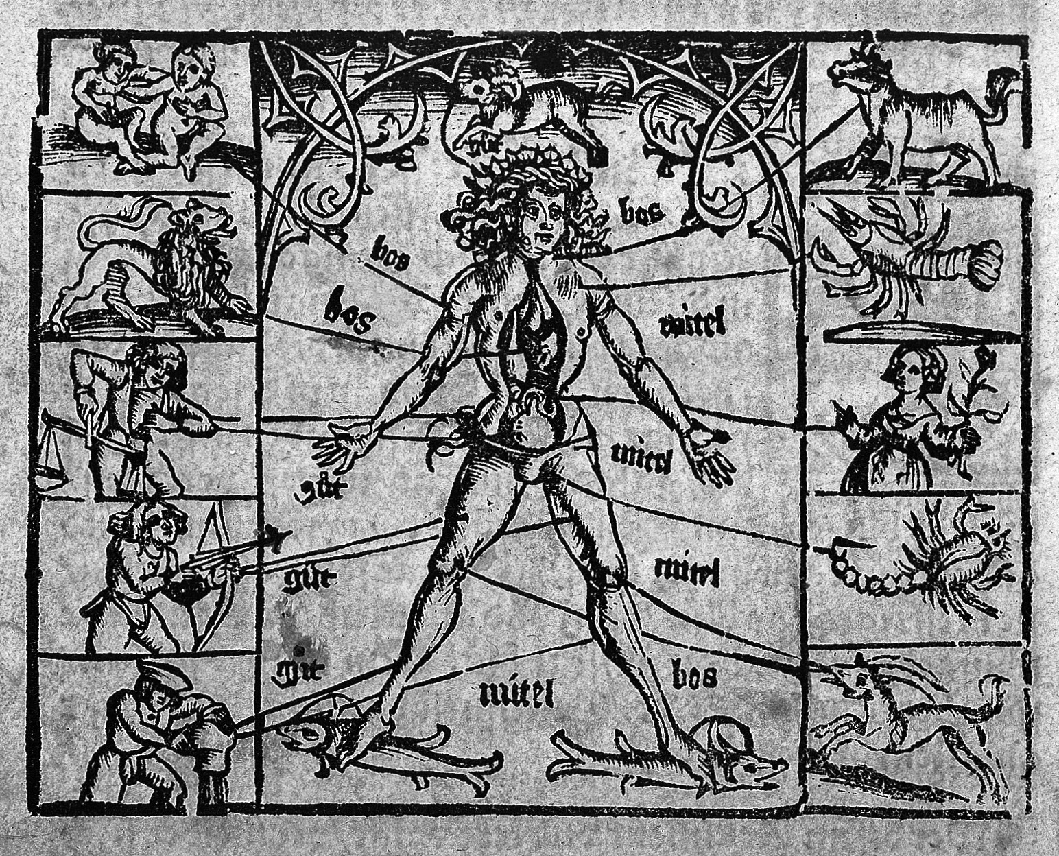 Astrological man with the signs of the zodiac indicating the sites controlled by them. Rare Books Keywords: Astrology